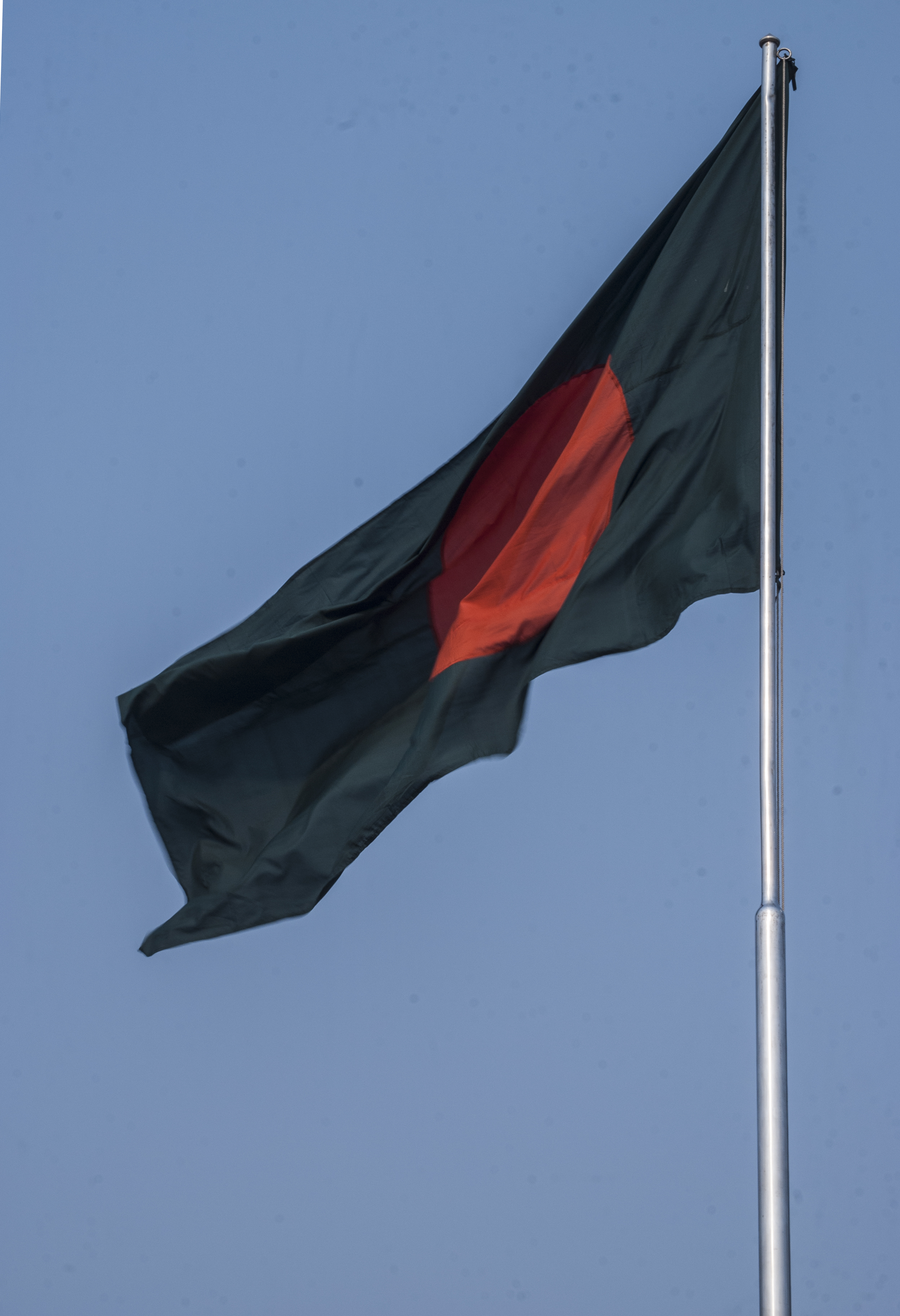 National Flag of The Peoples' Republic of Bangladesh